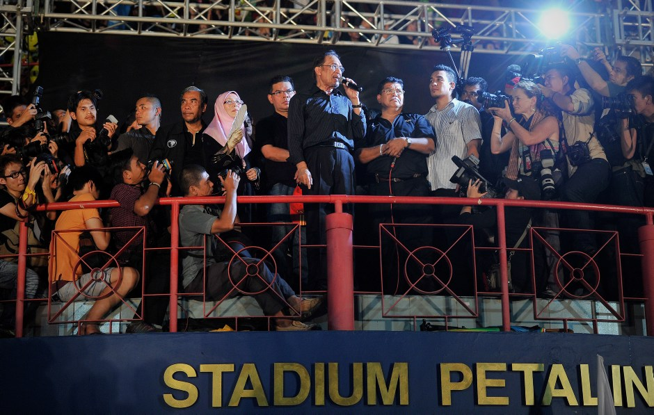 Malaysian opposition leader Anwar Ibrahim speaks during a rally dressed in mourning black gathered May 8 to denounce elections which they claim were stolen through fraud by the coalition that has ruled for 56 years. in Kuala Lumpur 08 May 2013. PIX Firdaus Latif